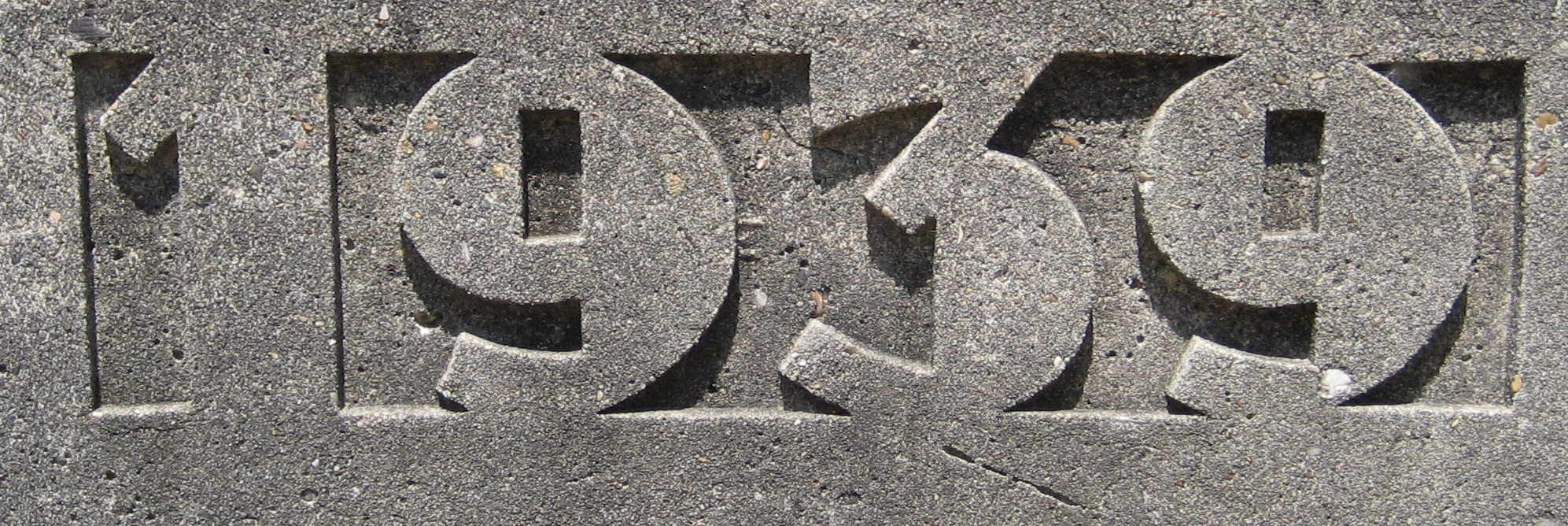 New Orleans: Detail of WPA bridge in City Park with date of 1939.